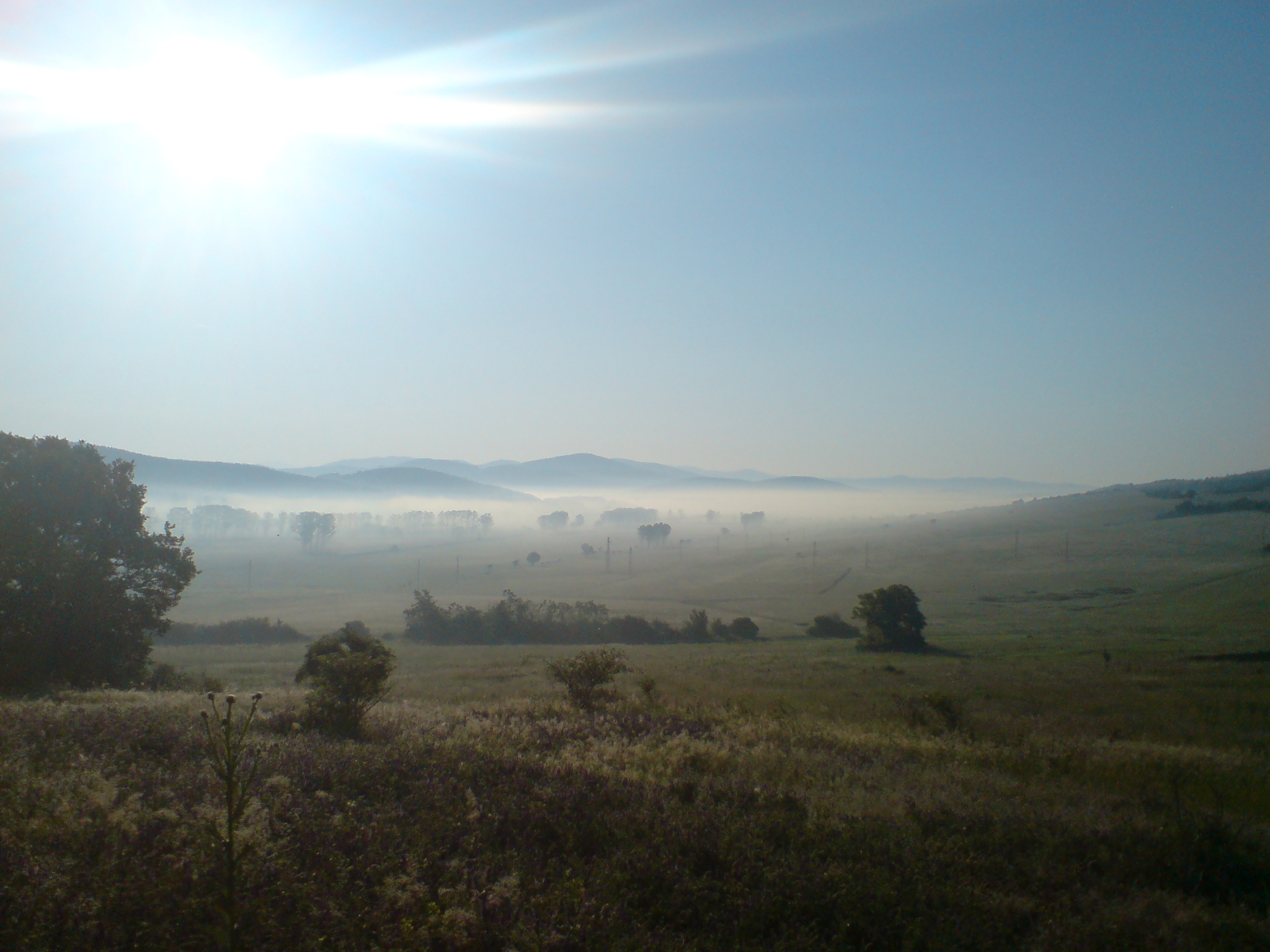 Орнитоложко важно място - "Раяновски влажни ливади". Rayanovtsi wet meadows (in 1997 the area was designated as "Important Bird Area" by "BirdLife International")